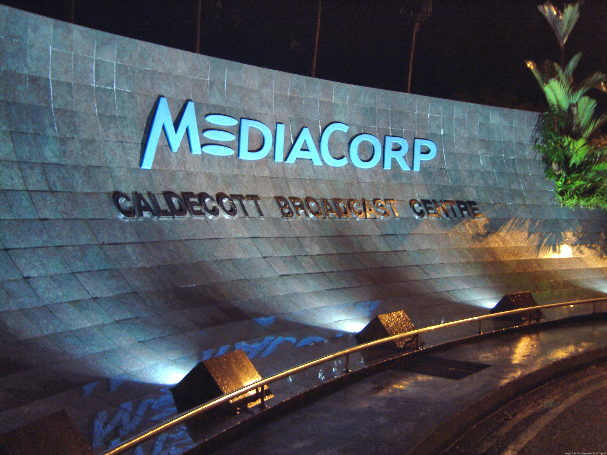 Entrance to MediaCorp Caldecott Broadcast Centre. Img by Calvin Teo, Sep 2005